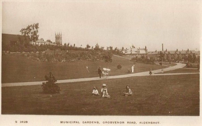 Postcard of the Municipal Gardens in Aldershot